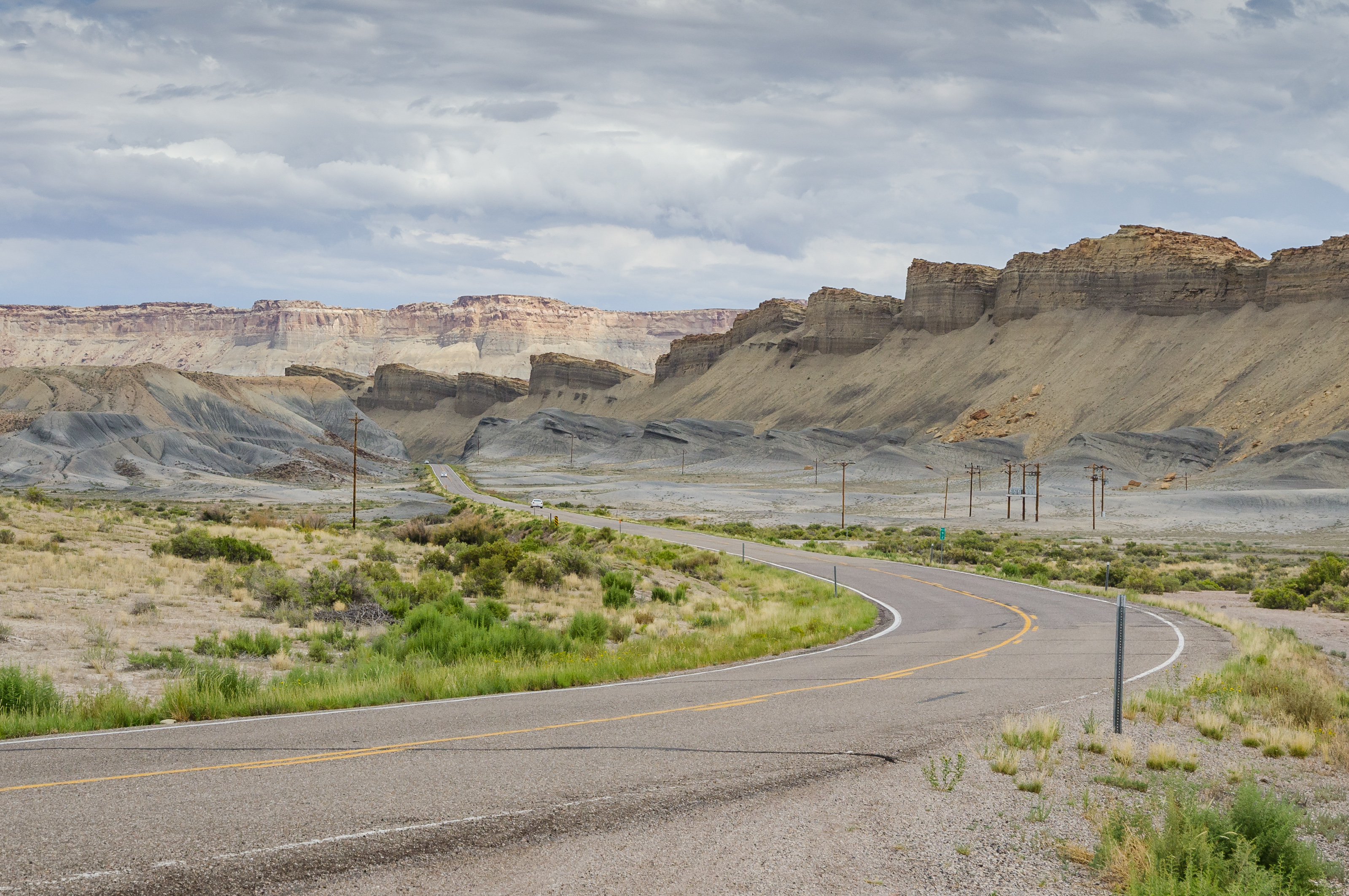 Utah State Route 24, at mile 92